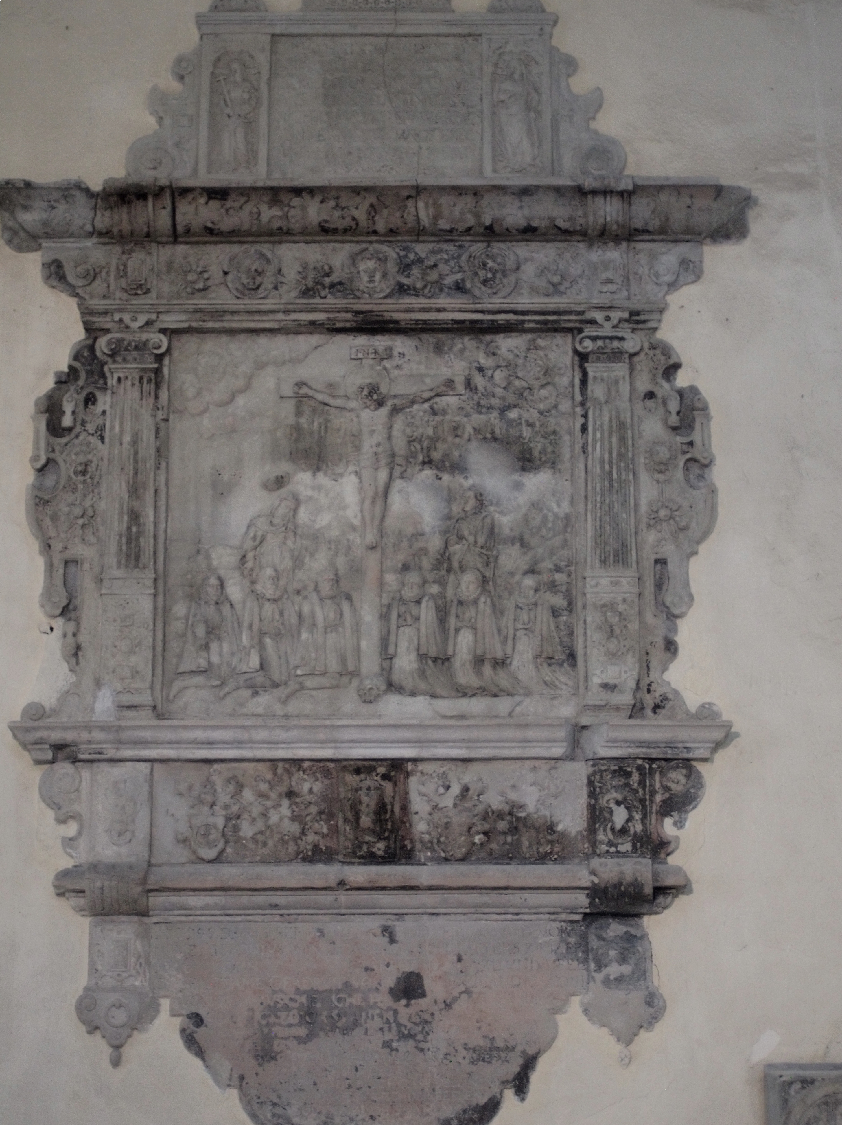 Antonius von der Buschi epitaaf Niguliste kirikus